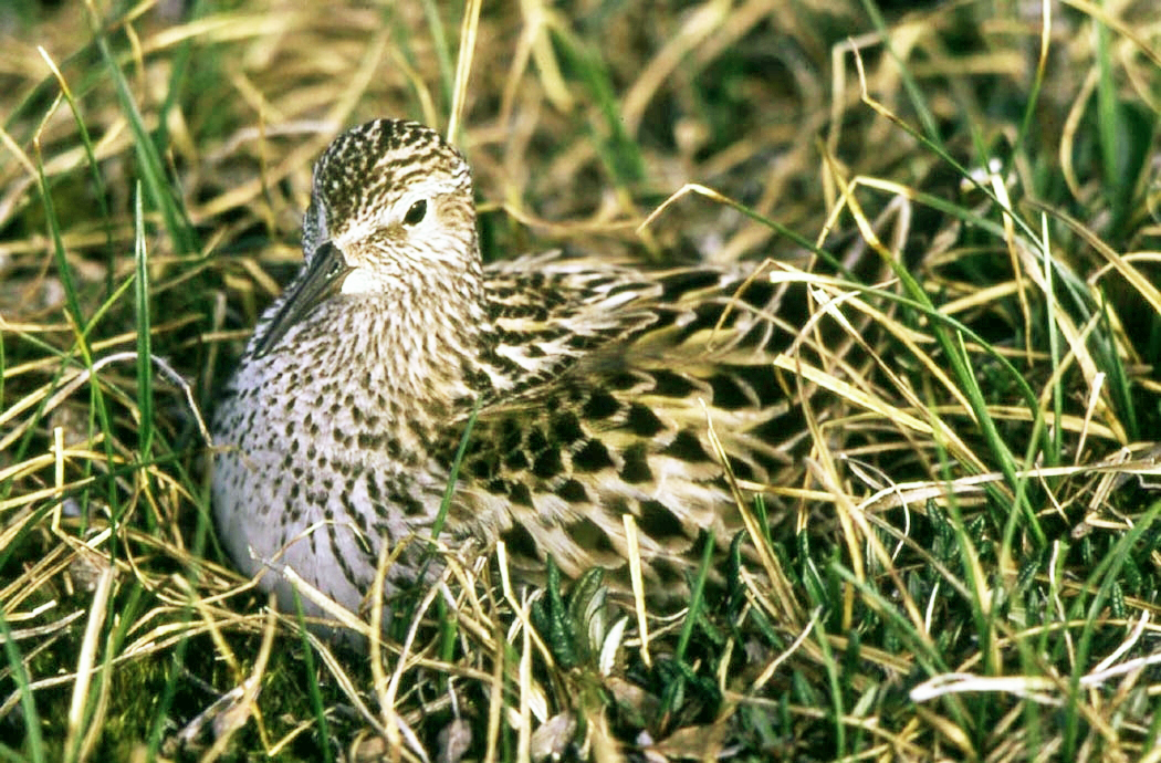 White-rumped Sandpiper (Calidris fuscicollis)